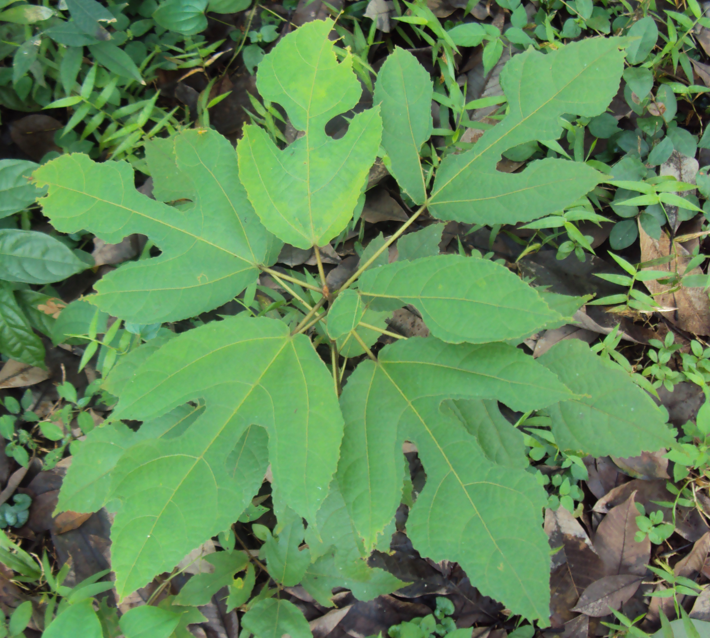 Ficus exasperata - തേരകം